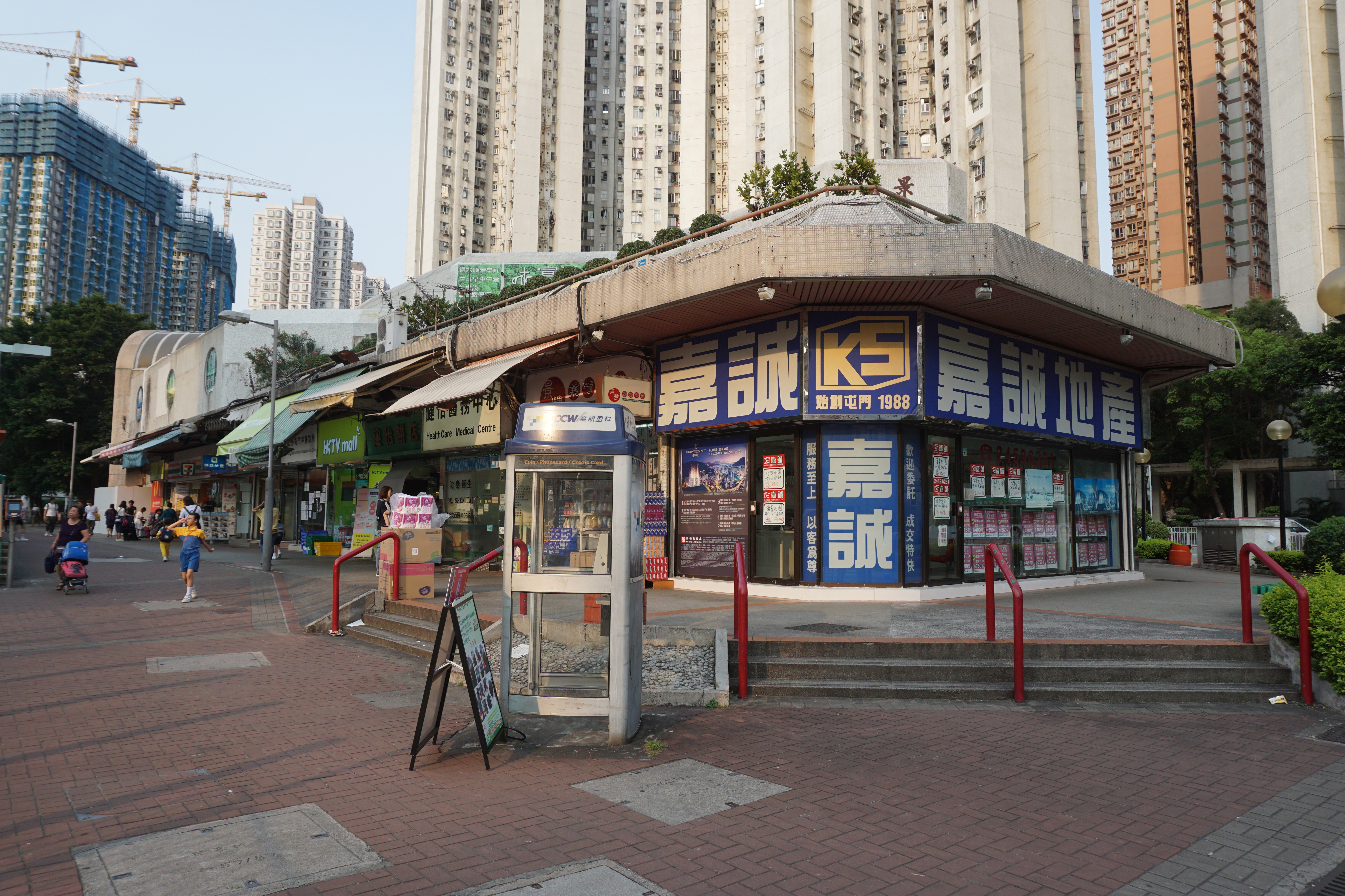 Prime View Garden in Tuen Mun, Hong Kong.